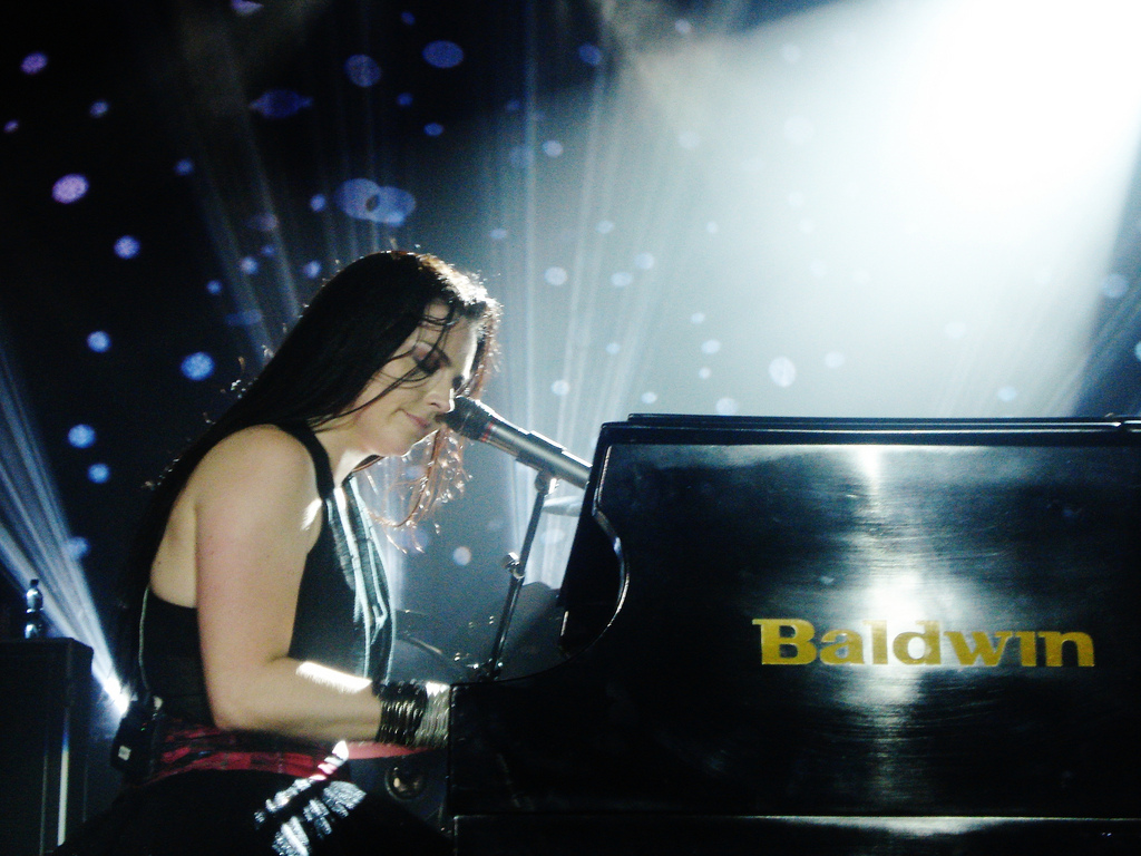 Amy Lee performing at an Evanescence concert on October 25, 2011.